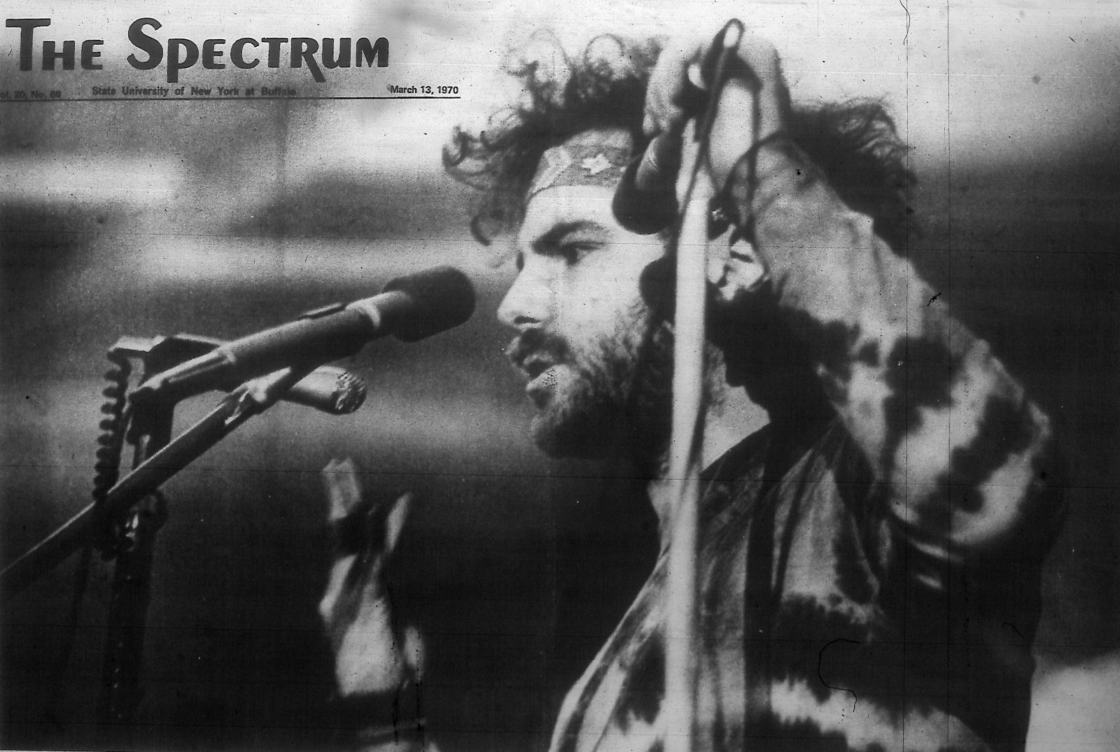 Jerry Rubin speaking before a crowd of more than 1200 people in the University at Buffalo's Fillmore Room, one month after his conviction in the Chicago Eight conspiracy trial.